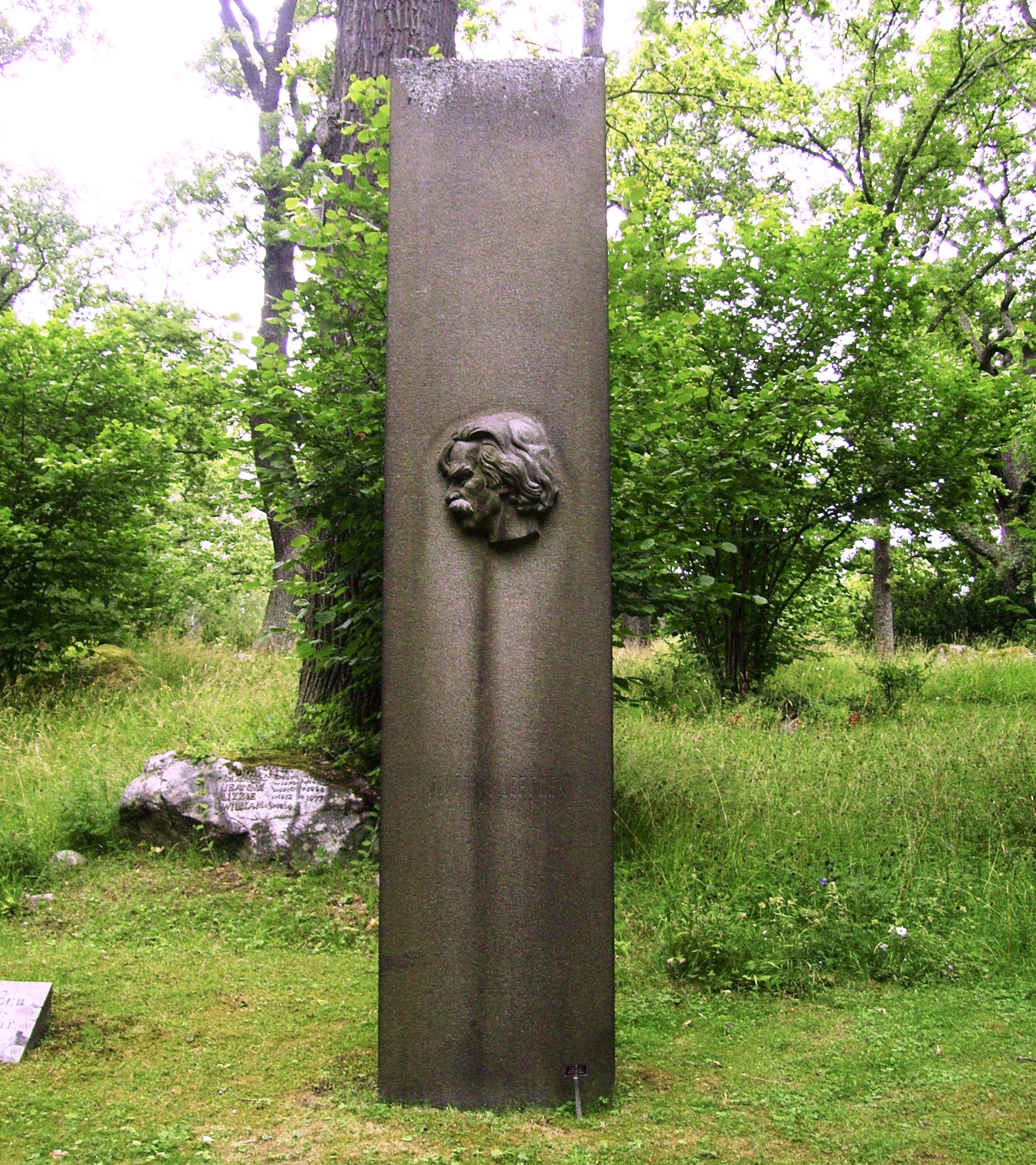 Picture of Gösta Mittag-Lefflers grave at Djursholms burial ground